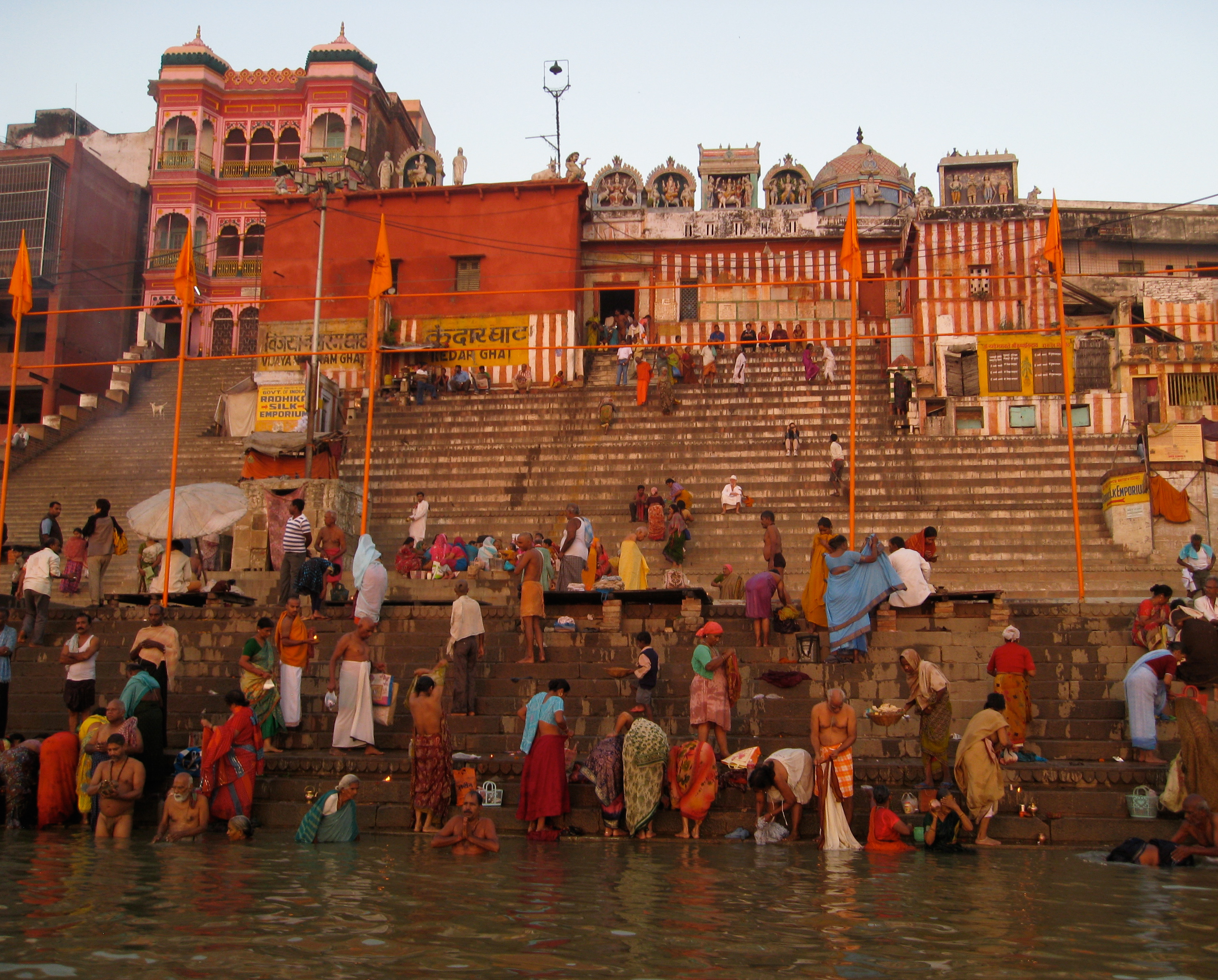 Varanasi - dawn on the riverside